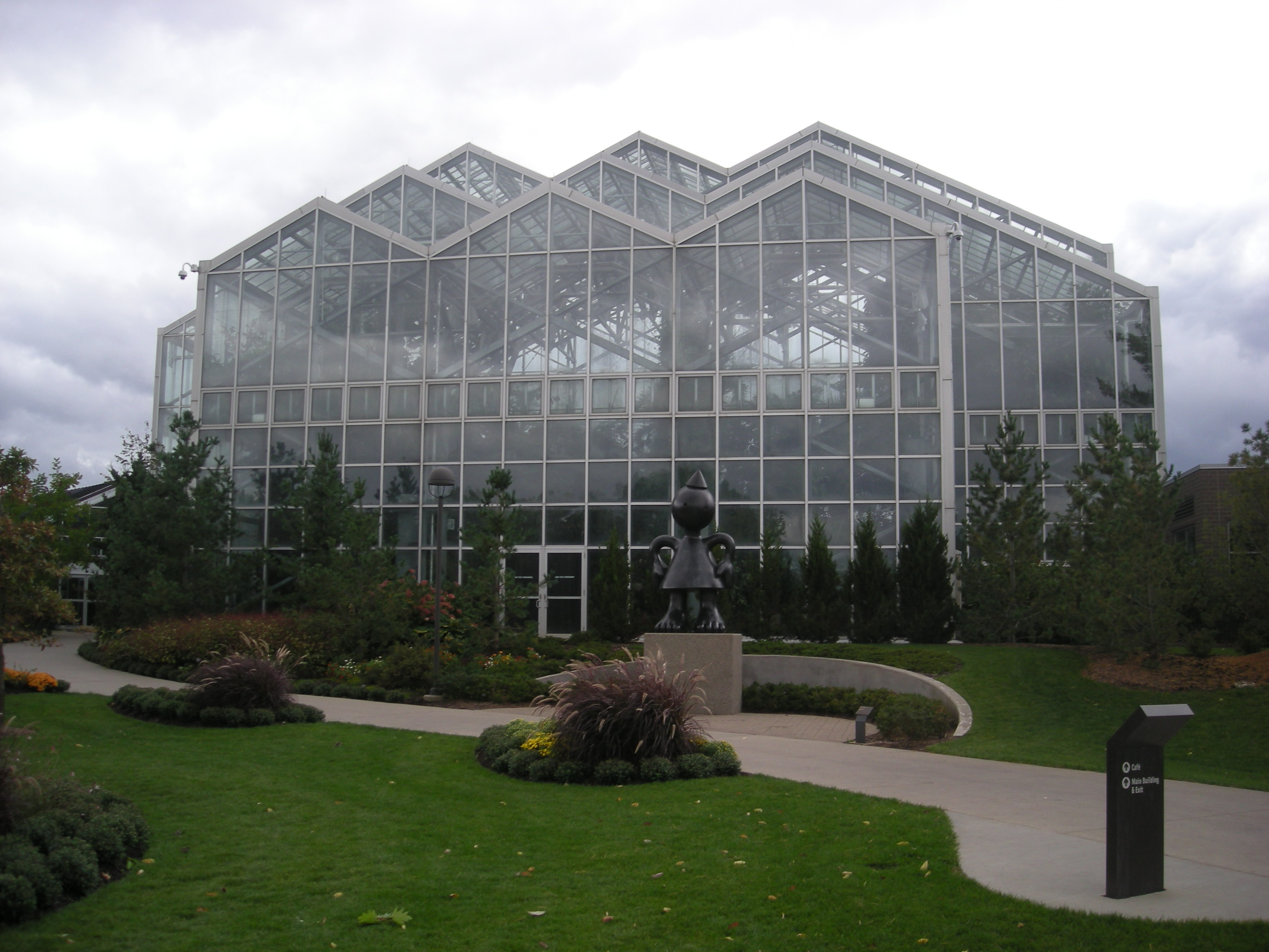 The exterior of the Lena Meijer Tropical Conservatory at the Frederik Meijer Gardens & Sculpture Park in Grand Rapids Township, Michigan (United States).